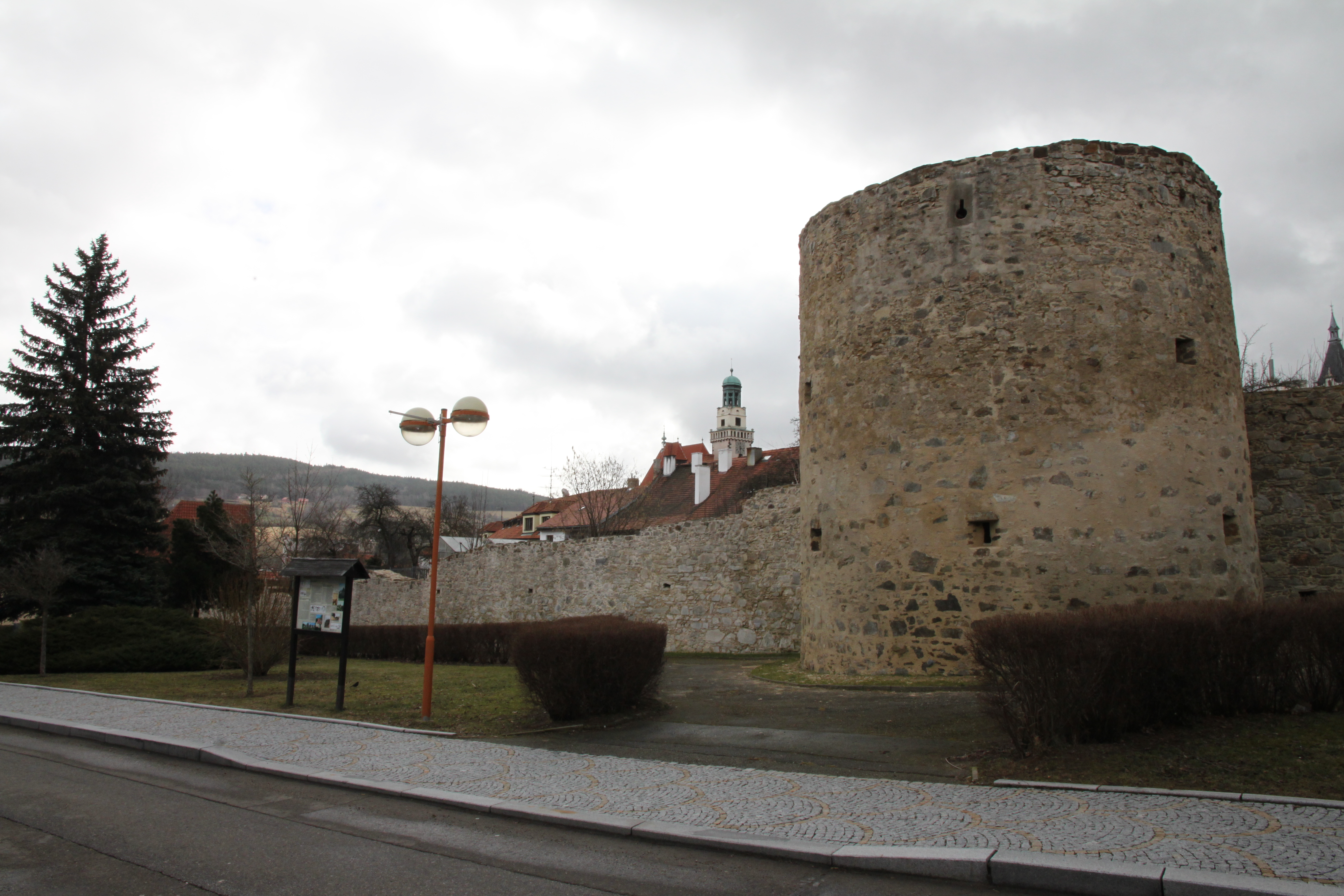 Educational trail Prachatické hradby, Hradební Street, South Bohemian Region, Czechia.